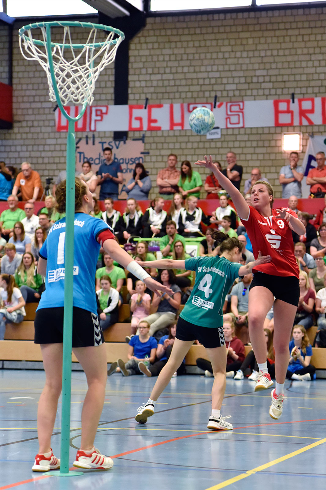 TuS Eisbergen’s Maike Steinmann performing a layup in the semi-final against SV Schraudenbach at the 50th German Indoor Korbball Championships in Oerlinghausen.